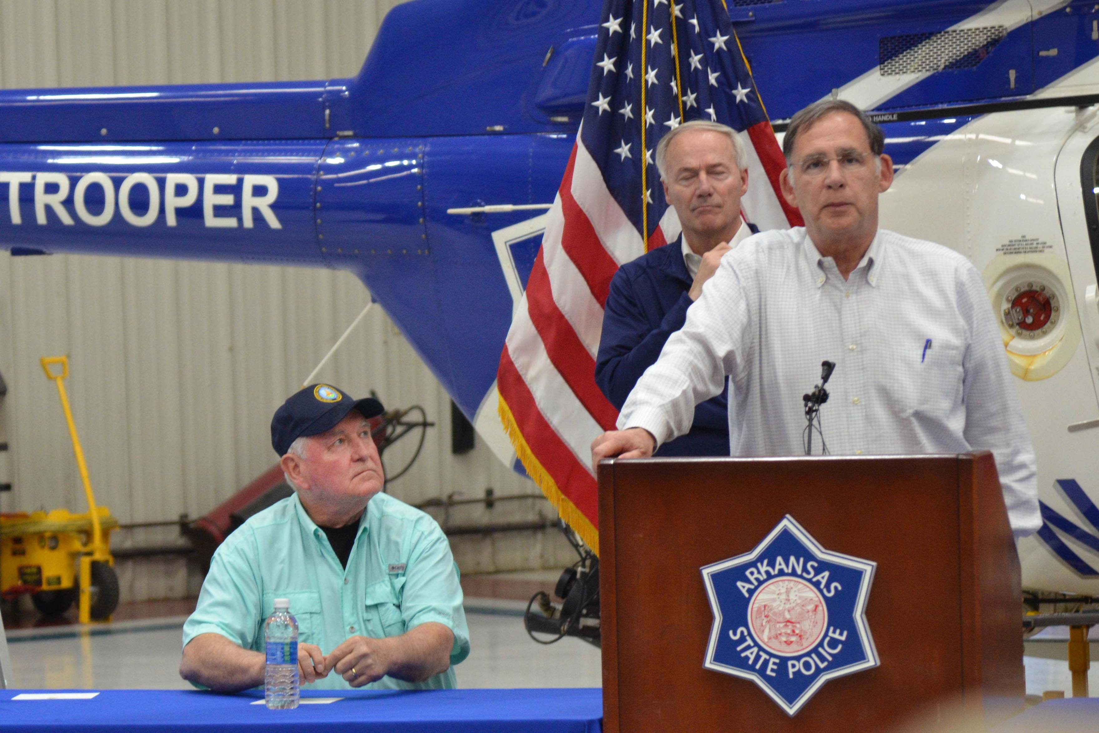 (L to R) U.S. Department of Agriculture (USDA) Secretary Sonny Perdue and Arkansas Governor Asa Hutchinson listen to Senator John Boozman (R-AR) speak about the flood damage in Northeast Arkansas May 7, 2017. USDA photo by Michawn Rich